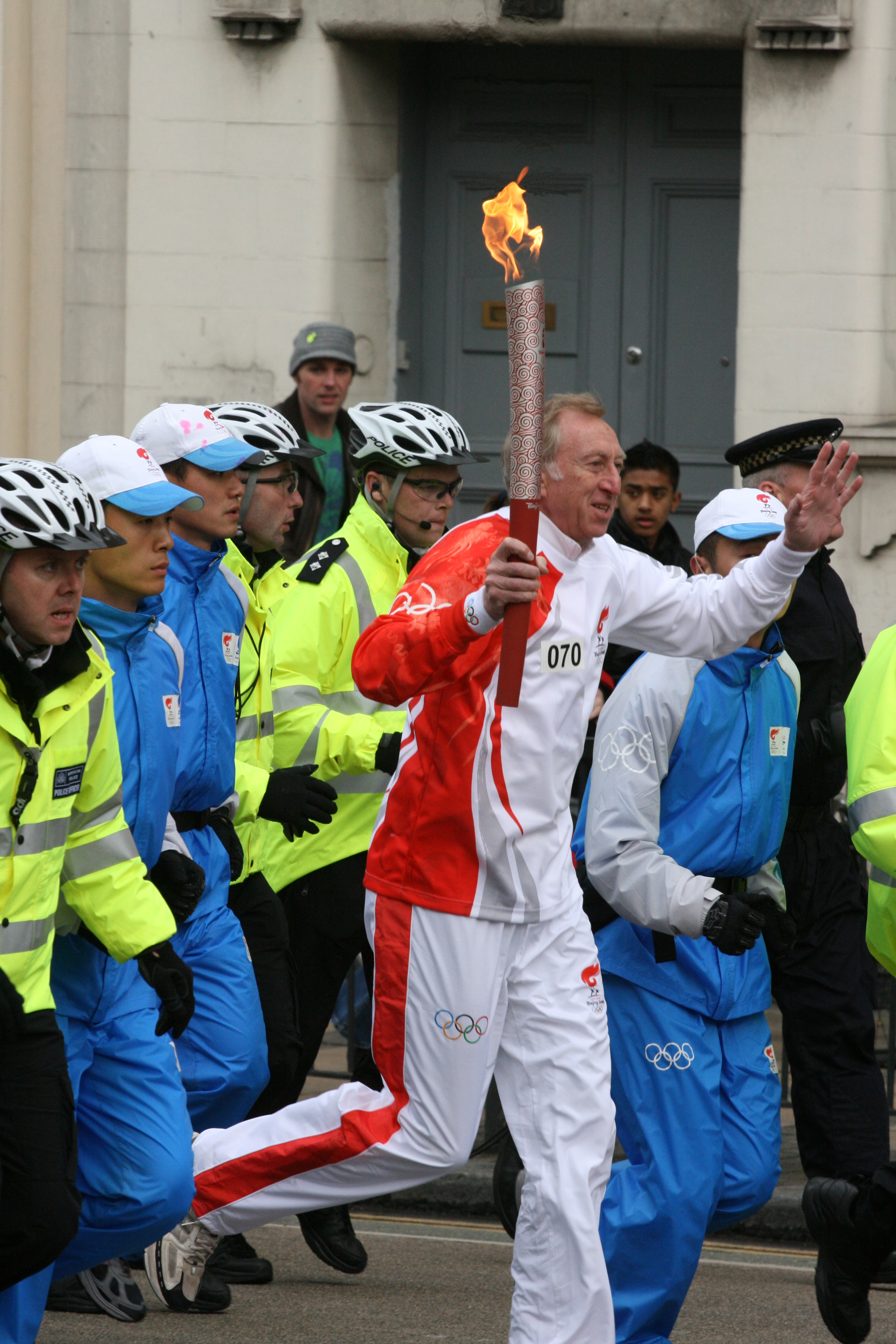 Olympic Torch for the 2008 Summer Olympics passes through Stratford in London. Stratford will be a major location for the 2012 Summer Olympics.